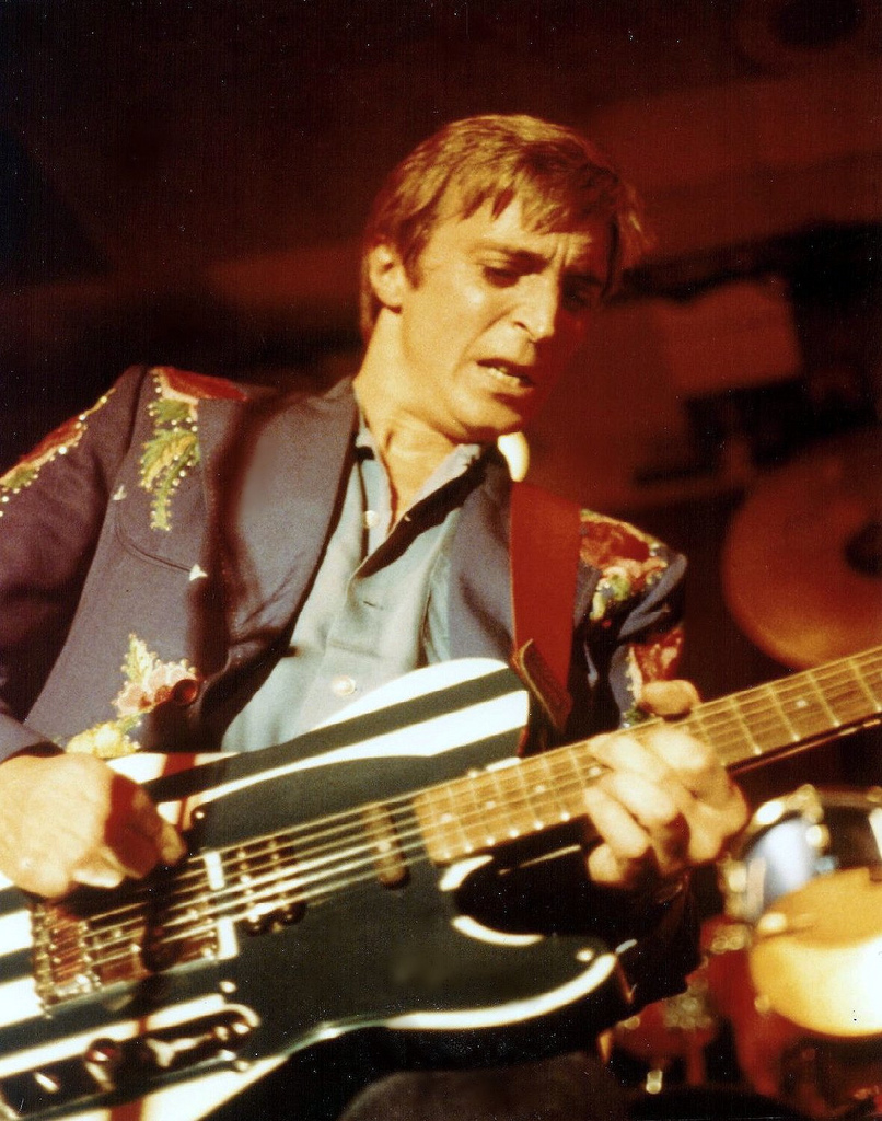 Mick Ronson during the Ian Hunter Short Back n Sides Tour at the Old Waldorf in San Francisco on 26 October 1981.